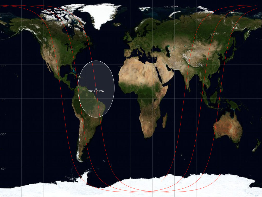 Ground track of satellite VRSS. Made from US government TLE data by GPLed program gpredict which plots the ground track over an public domain map of the world which originates from NASA.